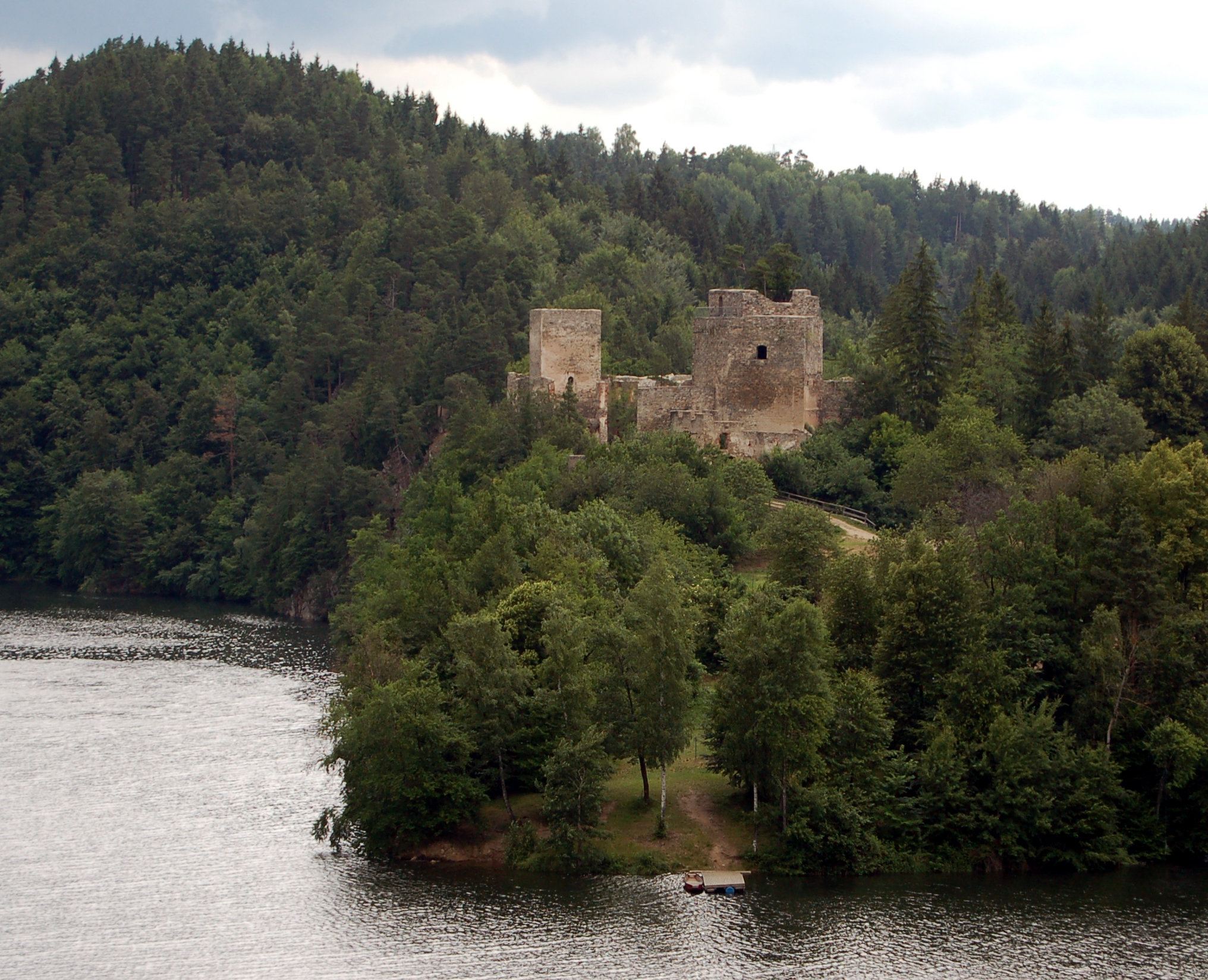 The Burgruine Dobra (Dobra castle) in municipality of Pölla, Lower Austria, is a cultural heritage monument.